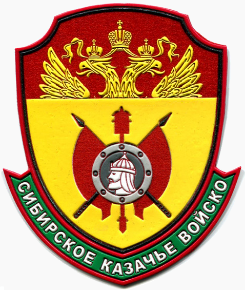 Сибирское казачье войско (шеврон)